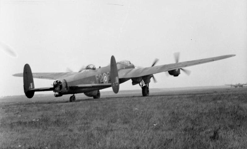 Avro Lancaster B Mark III, PB979 'F2-F', of No. 635 Squadron RAF, carrying liberated British prisoners of war back to the United Kingdom, prepares to take off from Lubeck, Germany. Note the Automatic Gun Laying (Turret) radar, known as "Village Inn", installed under the rear turret. AGL(T) allowed automatic sighting and firing on enemy aircraft detected by the radar, but saw only limited use before the German surrender.